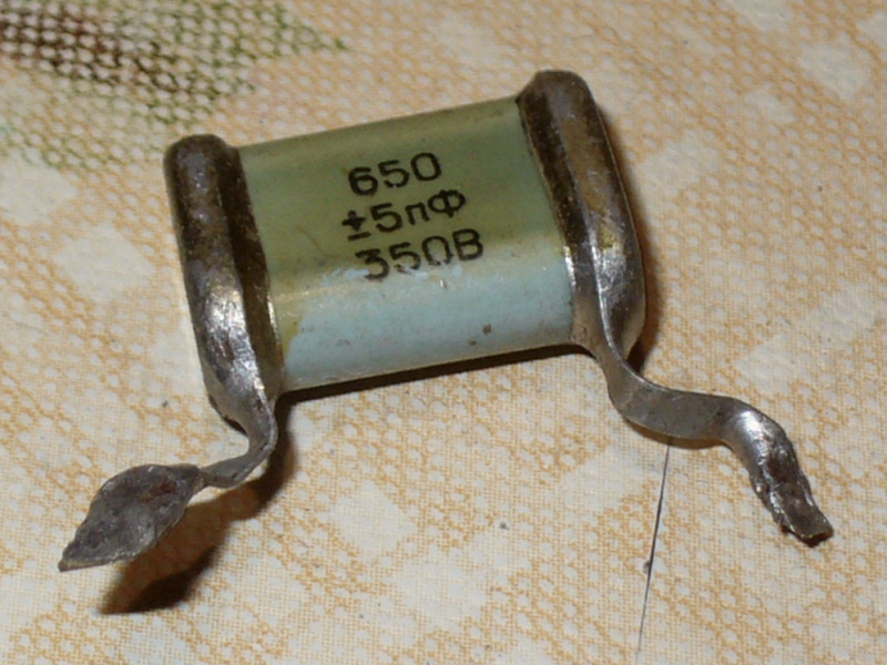 Mica capacitor SGM (USSR)